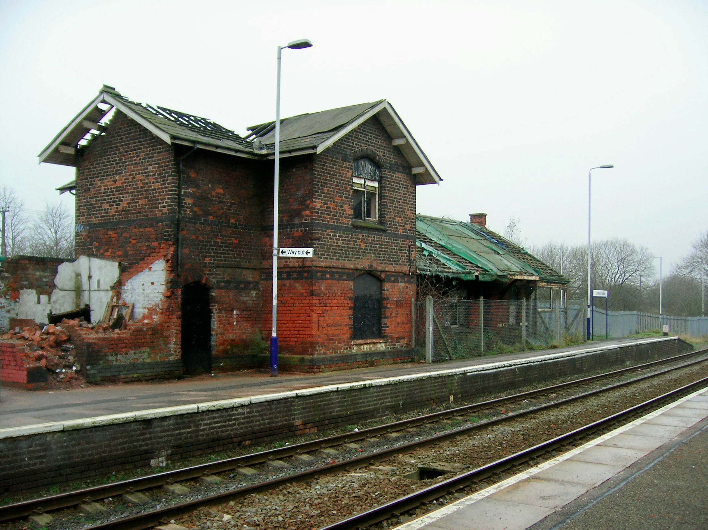 Lostock Gralam railway station, view from the northern platform looking south west at the stations only building on the westbound platform